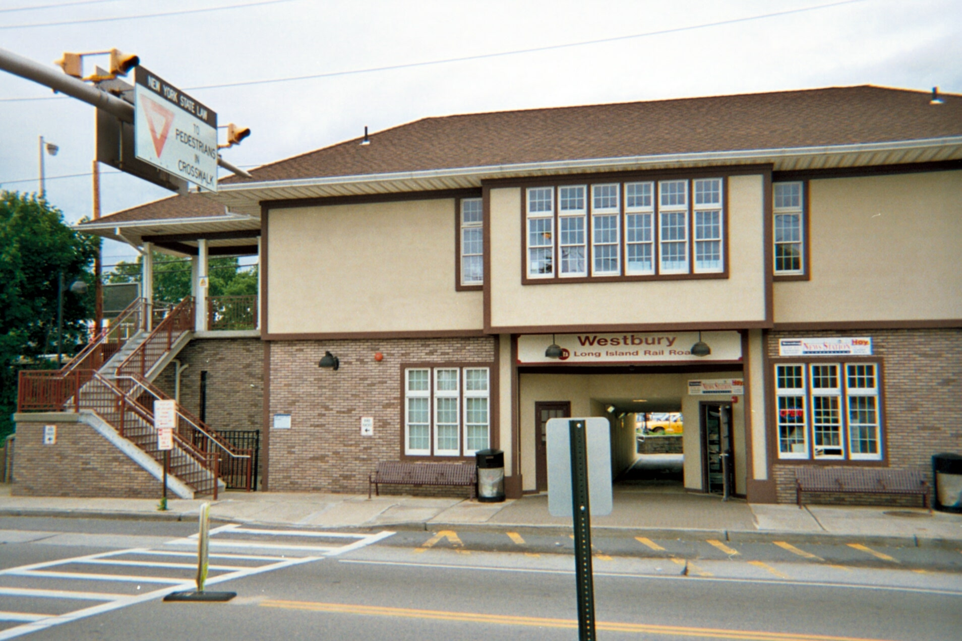 The north side of Westbury (LIRR station) at the pedestrian tunnel & crosswalk of Union Avenue in Westbury, New York.